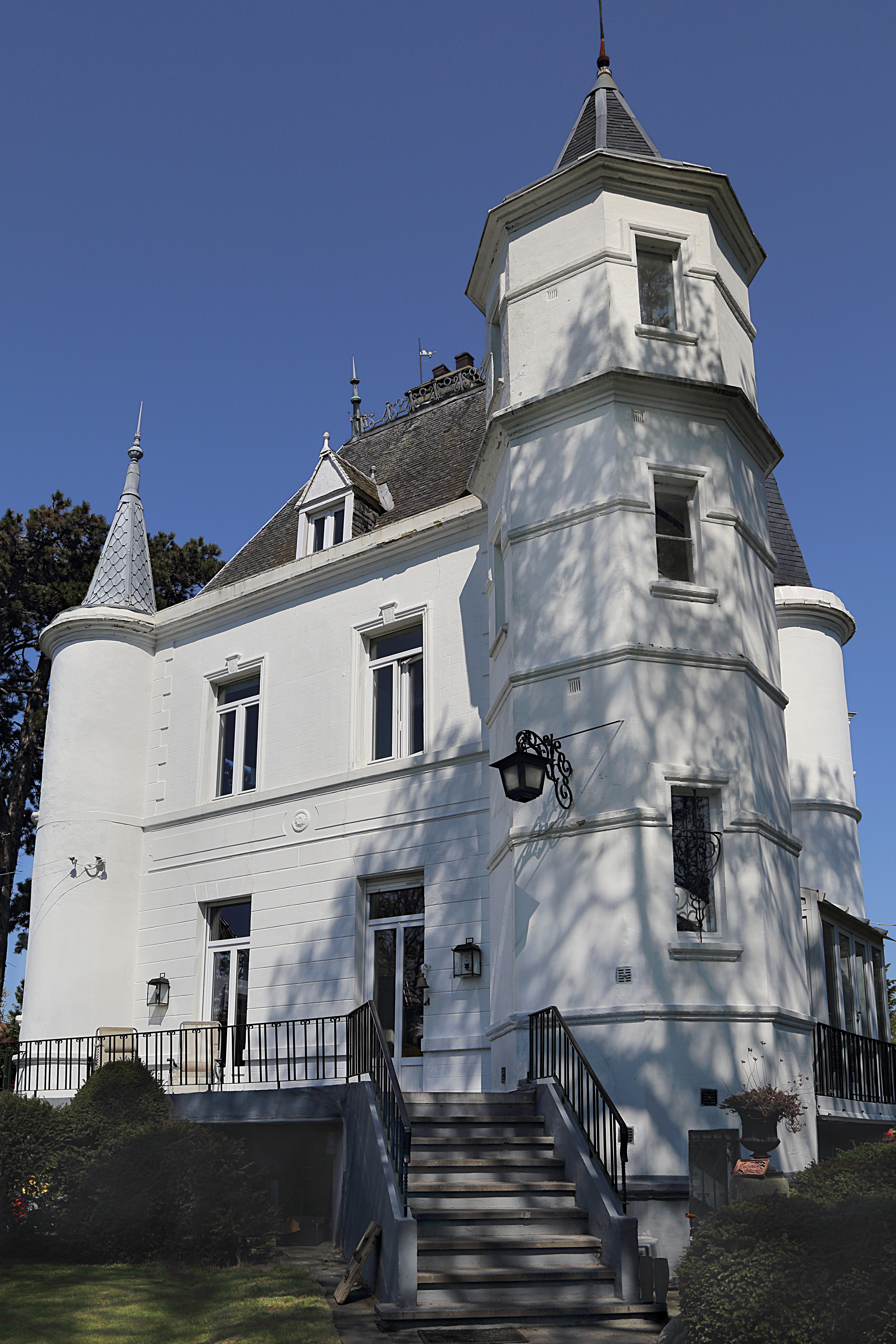 Château des Tourelles in Mouscron, Belgium. Native house of Raymond Devos.